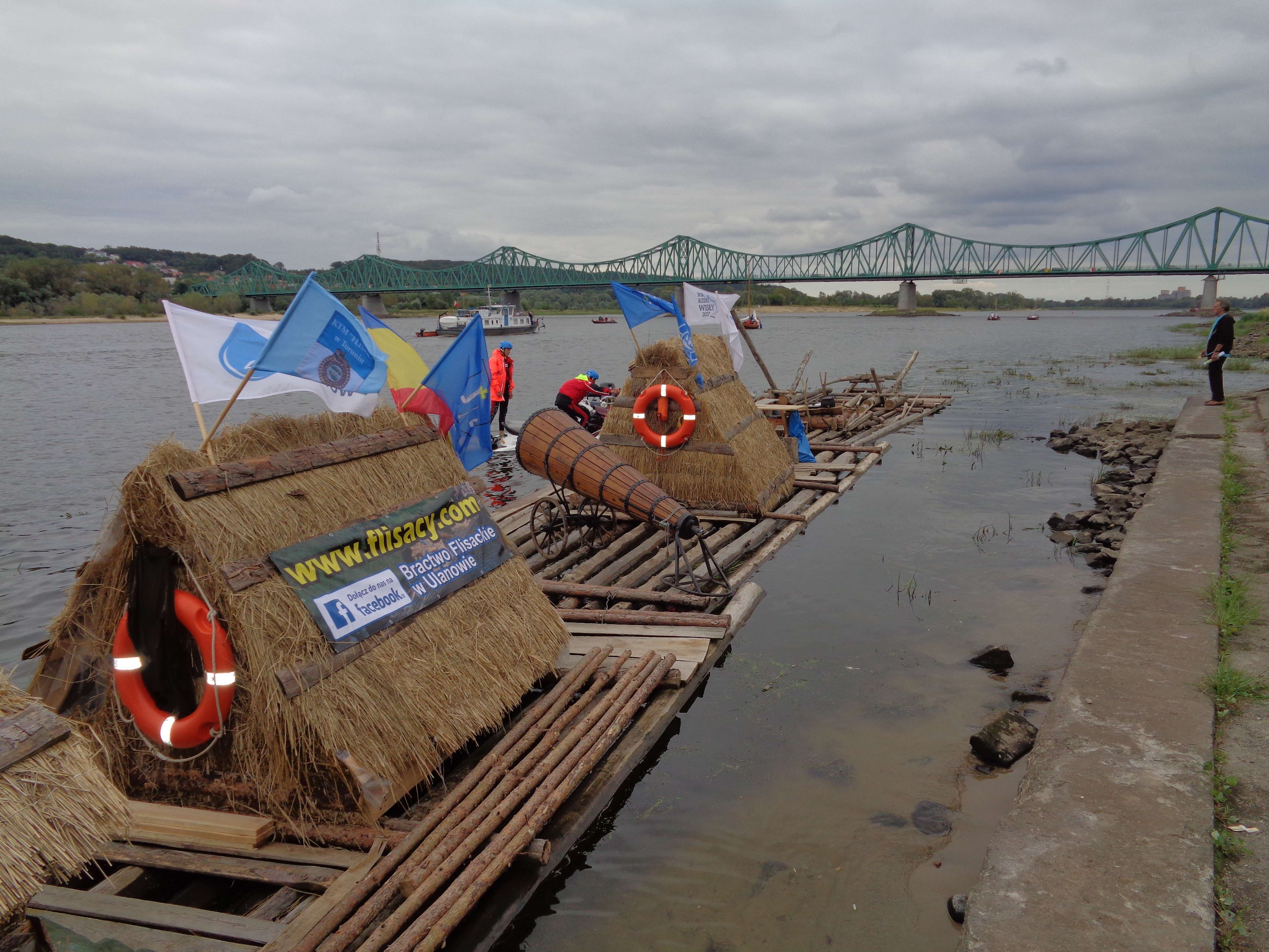 Replica of the timber rafting boat on Vistula River Festival in Włocławek.